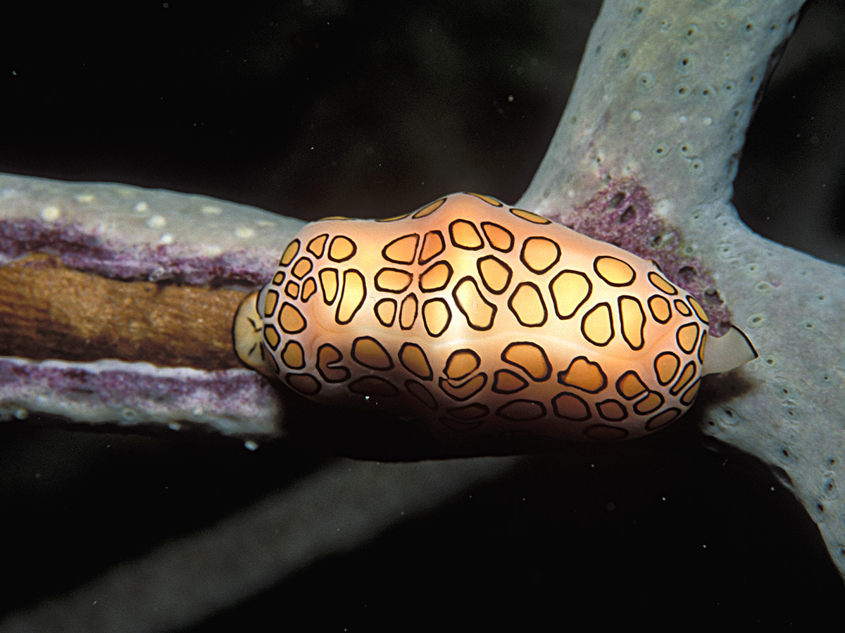 I think these Flamingo Tongue Snails (Cyphoma gibbosum) are so beautiful. But I am sometimes sickened to see how much damage they do to the gorgonians they dine on. Well, they've gotta eat!